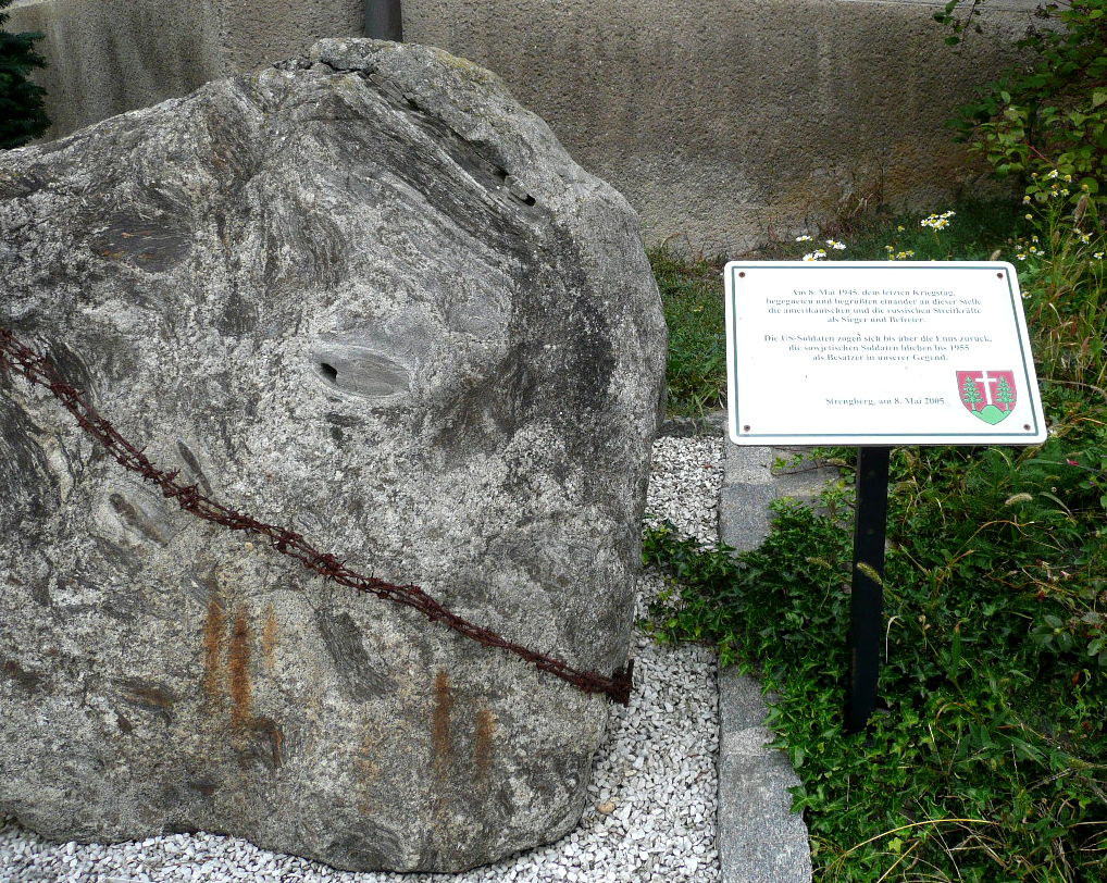 Monument for the meeting of the Russian and American Armies on 8 May 1945